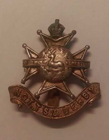 Photo of Nottinghamshire and Derbyshire Mounted Brigade Cap Badge from personal collection